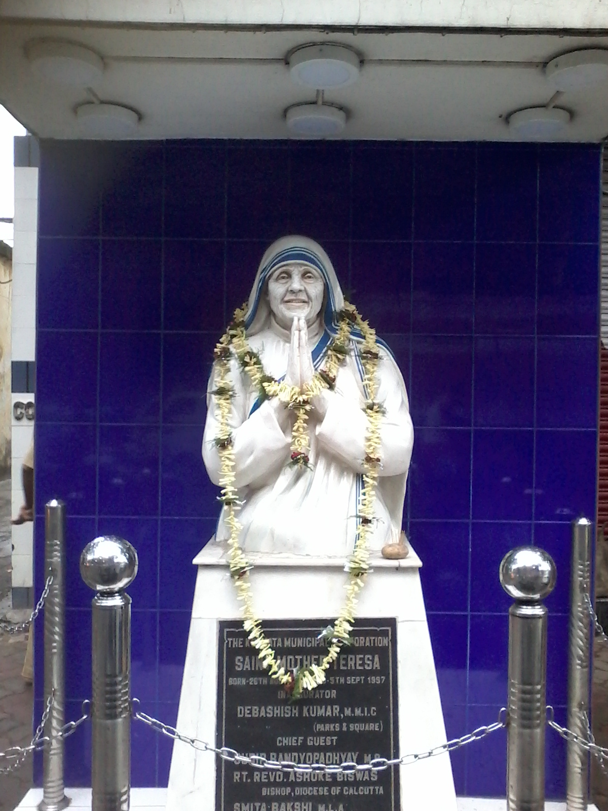 Monument of Saint Mother Teresa